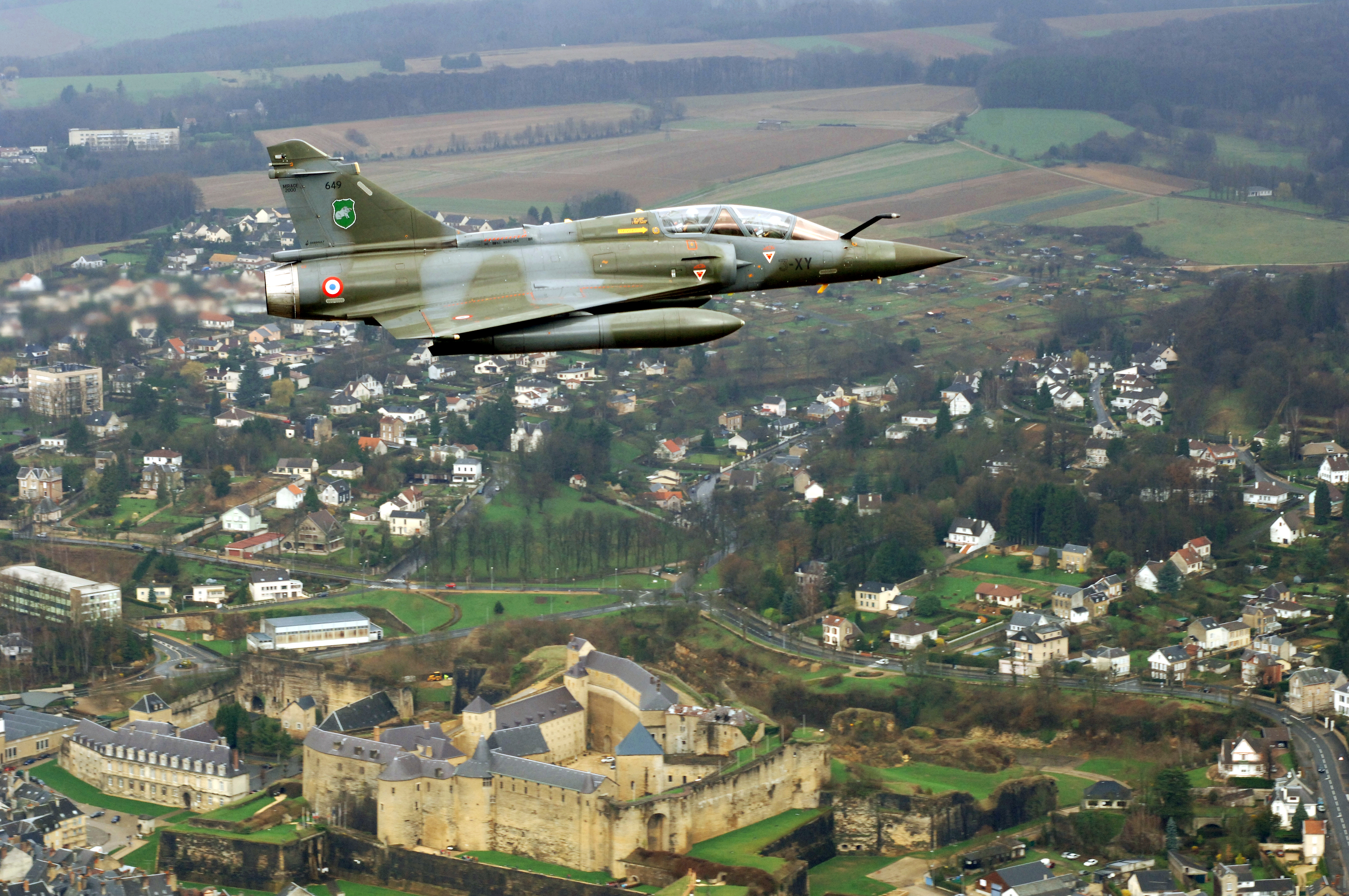 Mirage overflying Sedan